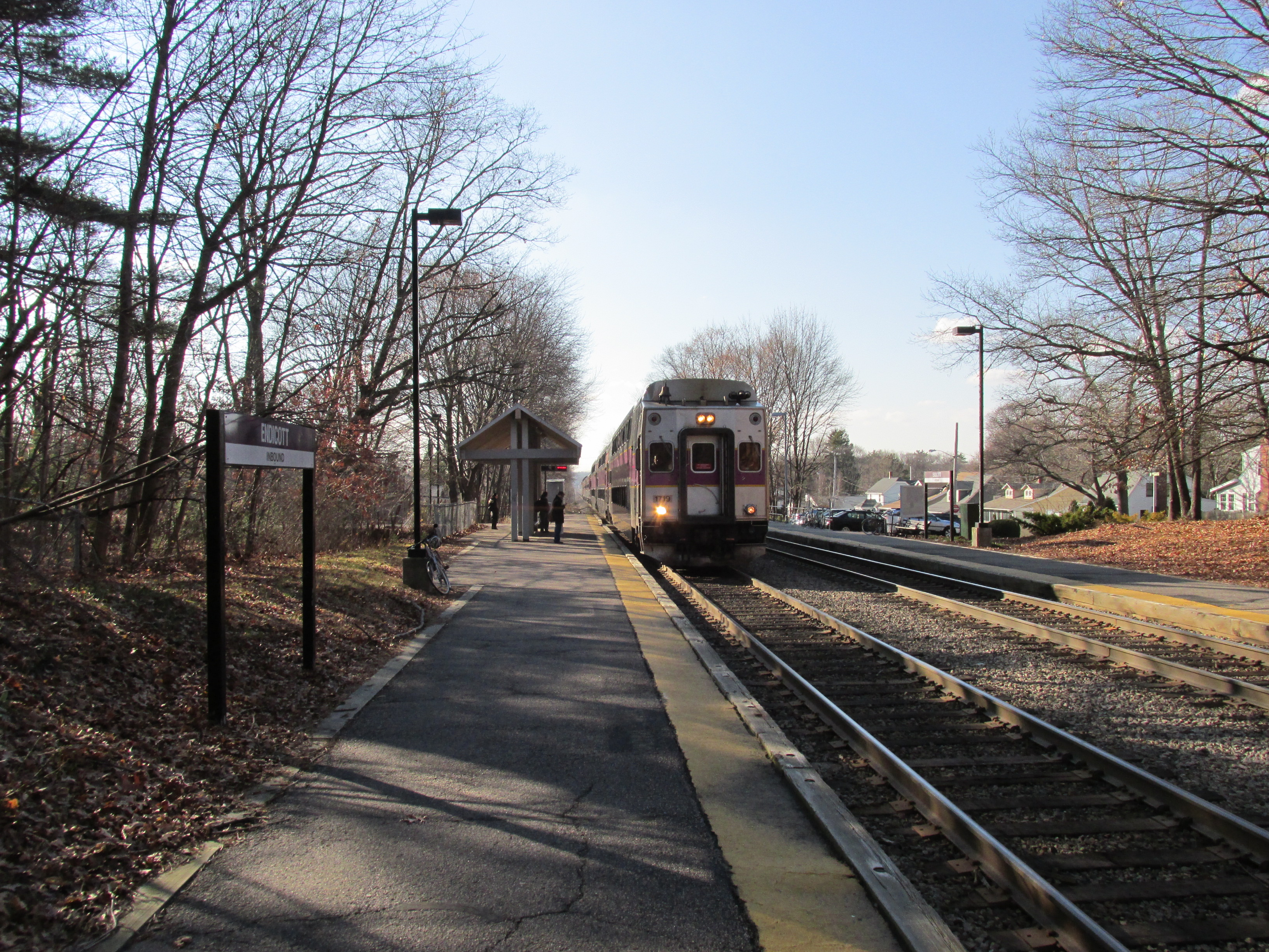 Endicott MBTA station, Dedham Massachusetts